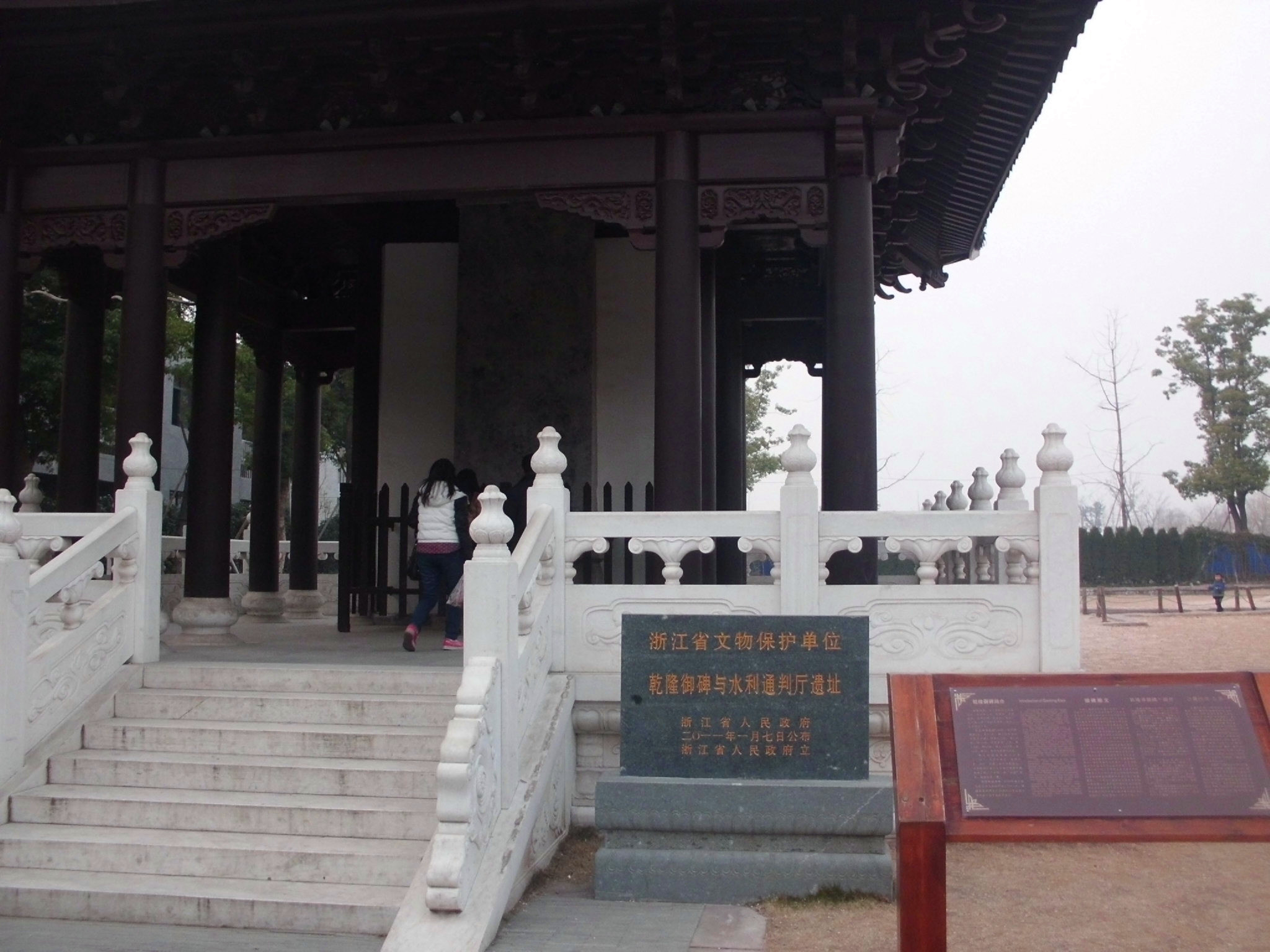 Ancient Town of Tangqi